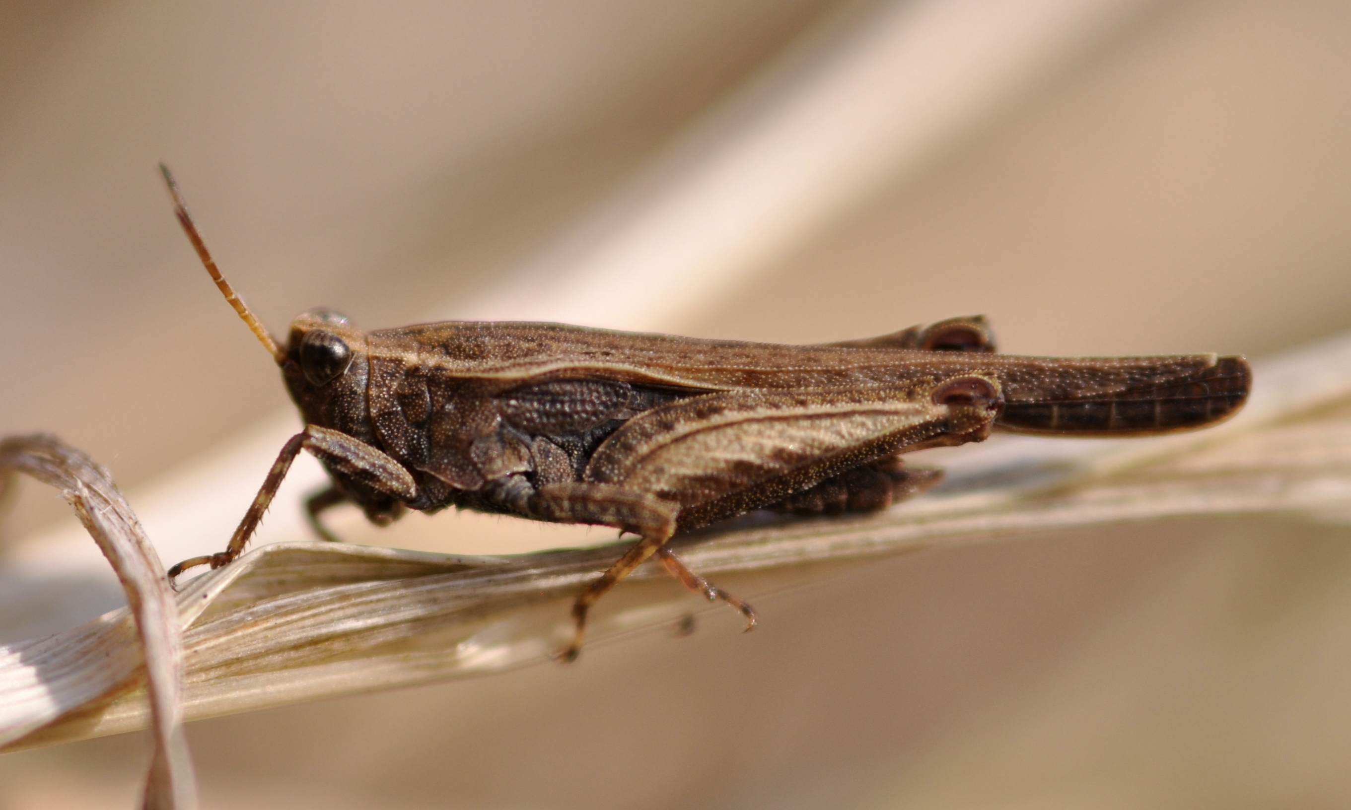 Groundhoppers Tetrix subulata in Kirchwerder, Hamburg.